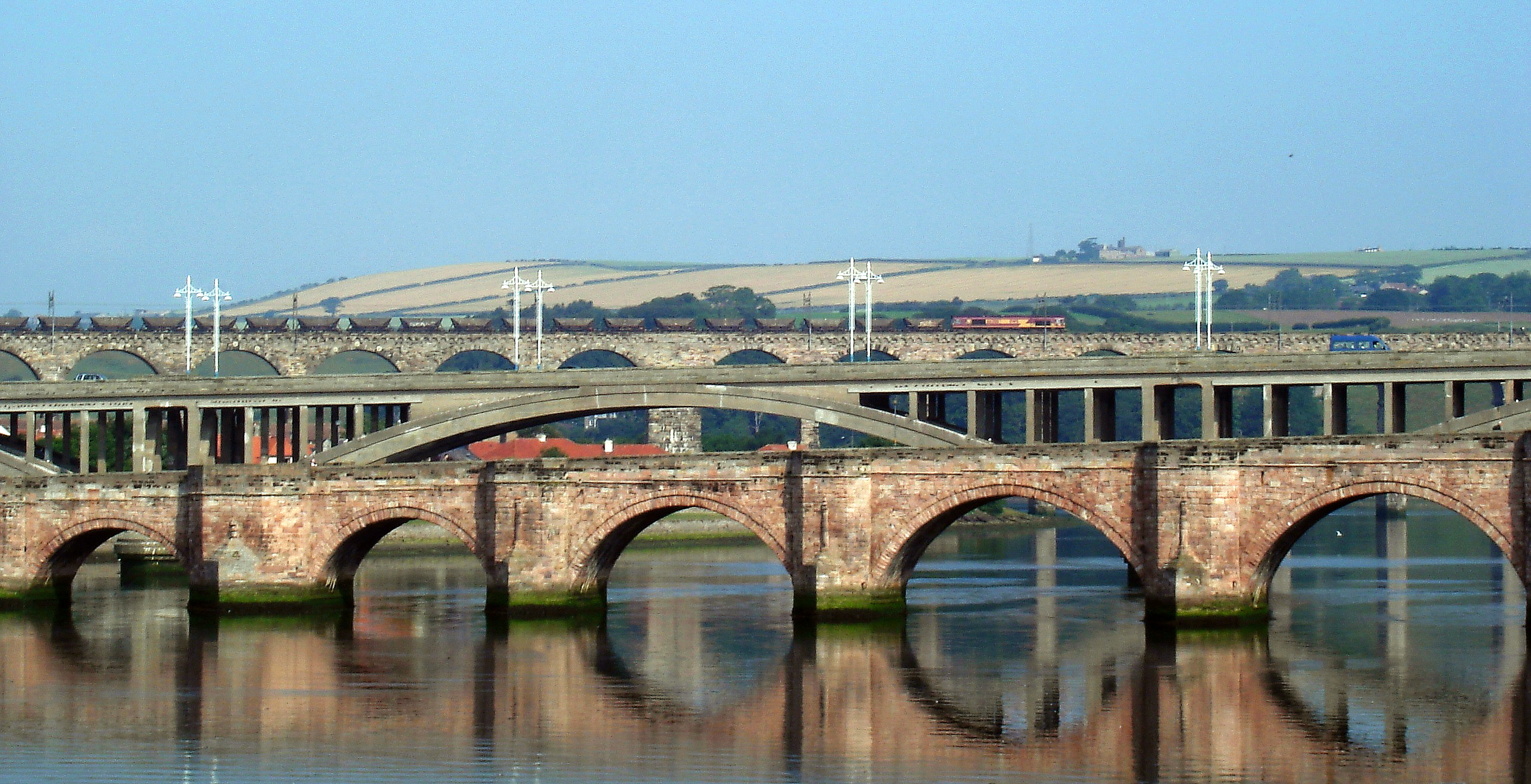 66106 crossing the Royal Border Bridge